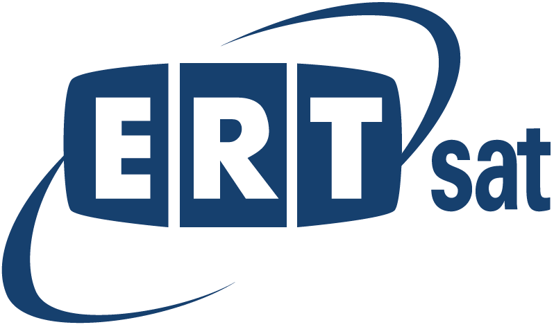 2nd Logo of ERT Sat (Re-branded TV channel from Greece) Source: [1] History of Image:ERT Sat (Second).gif 2007-12-18T19:59:42Z Polbot (Talk